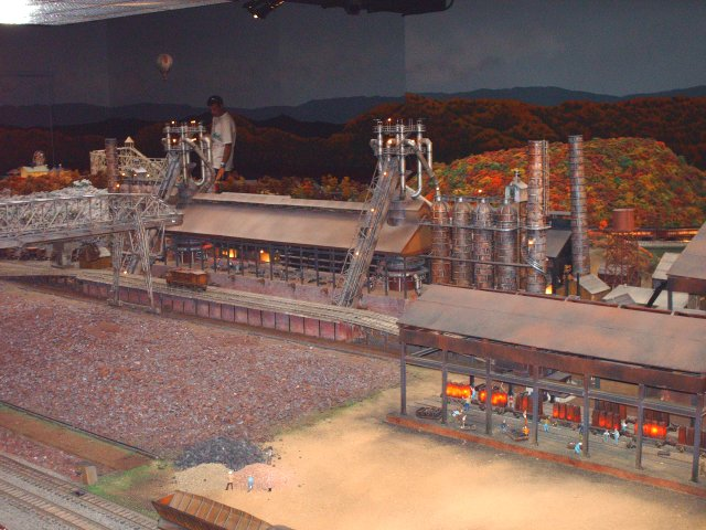 Miniature Railroad & Village - replica of Sharon steelmill